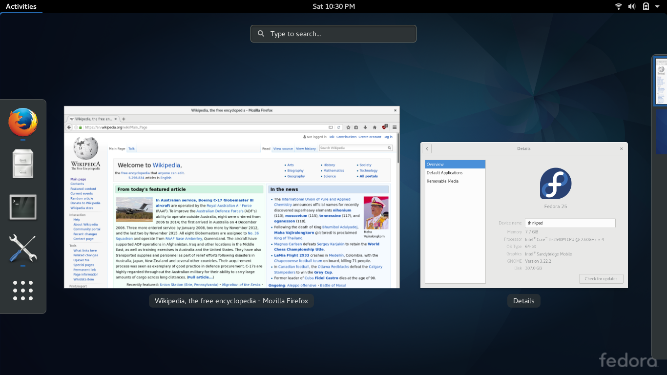 Fedora (v25) GNU/Linux operating system showing the overview screen in Gnome 3.22.2